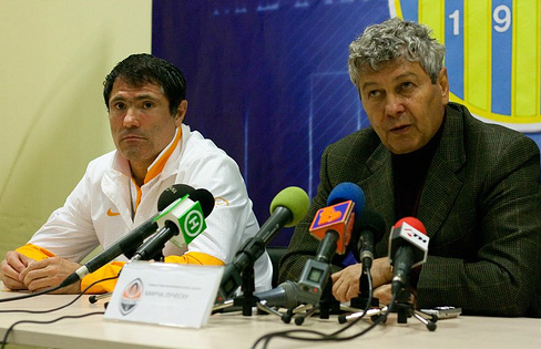 Alexandru Spiridon (left) and Mircea Lucescu (right) at a press-conference in 2009